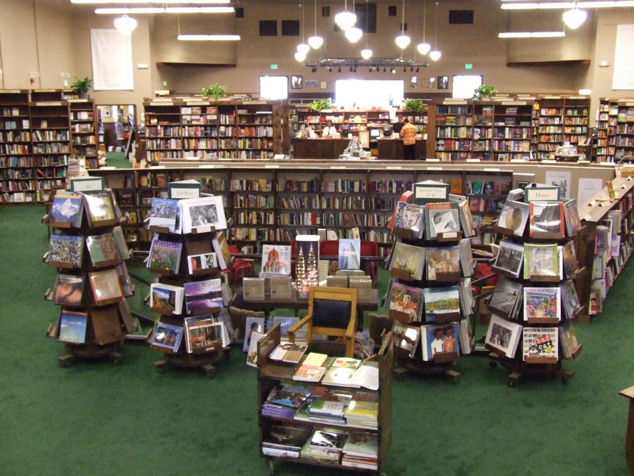 Tattered Cover Book Store at 2526 East Colfax Avenue, Denver, Colorado. The bookstore occupies the former Lowenstein Theatre, originally known as the Bonfils Memorial Theatre. Shown: the orchestra pit, foreground, surrounded by more bookshelves.